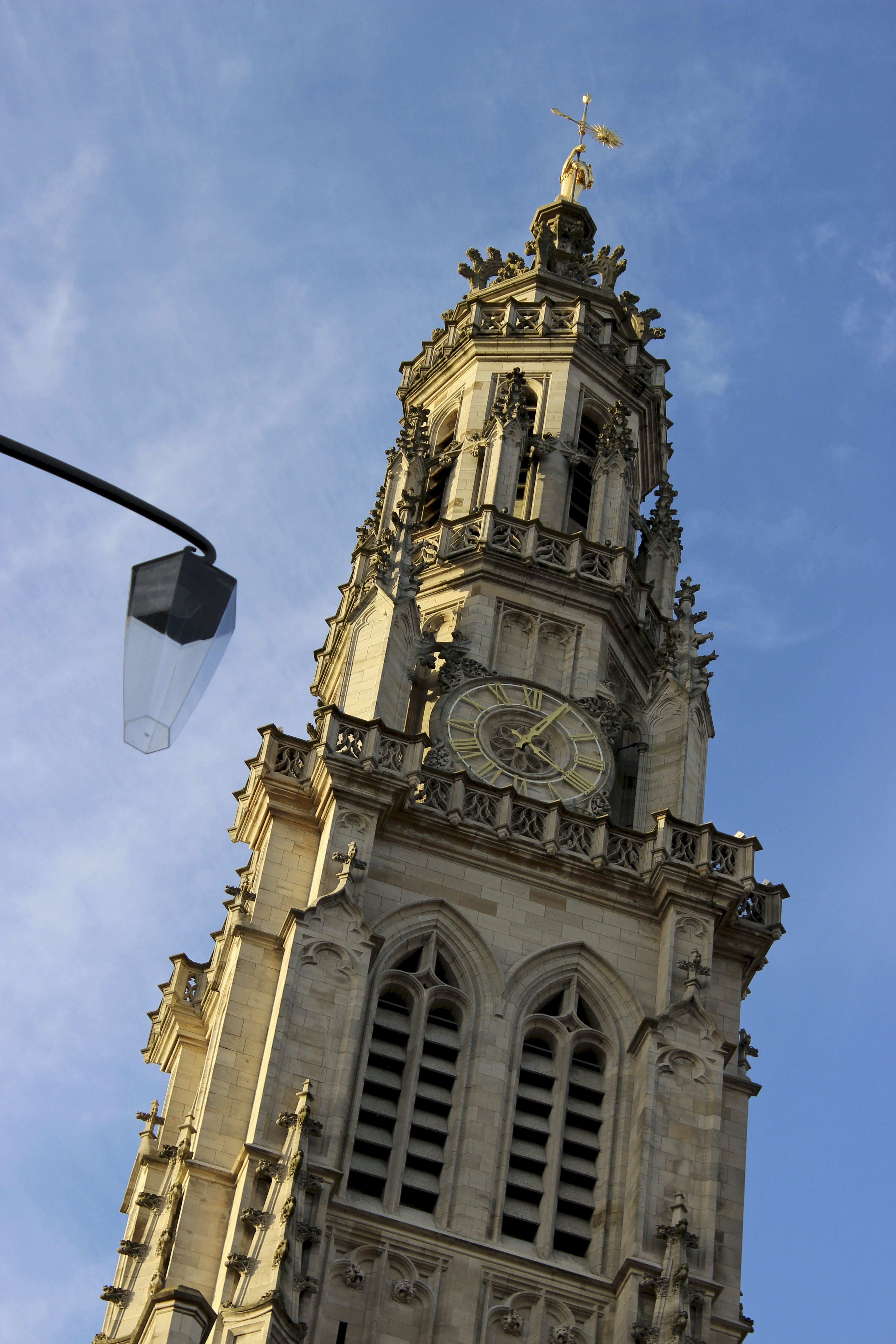 The Belfry of Arras